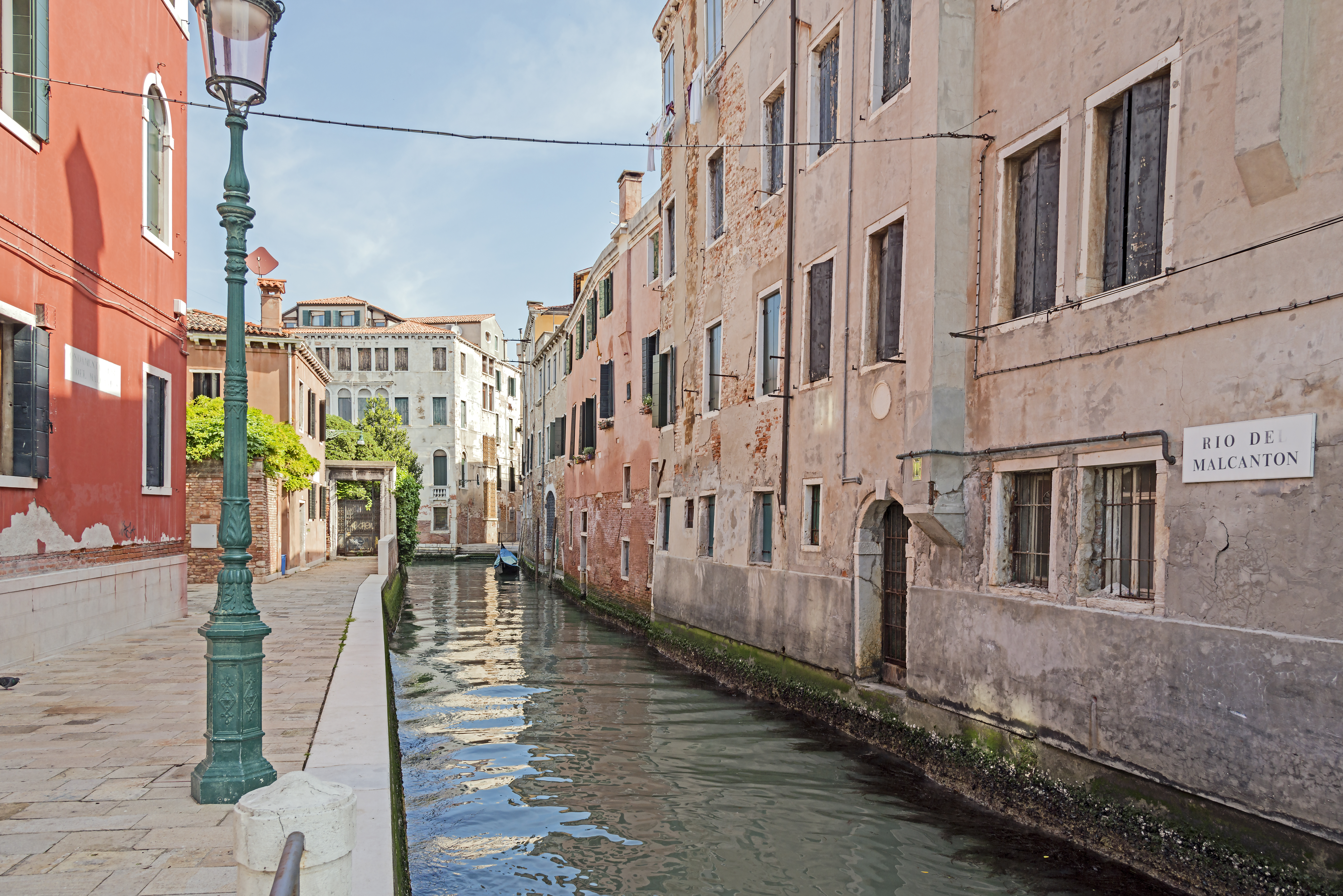 Rio del Malcanton to Venice. Seen at its southern end.